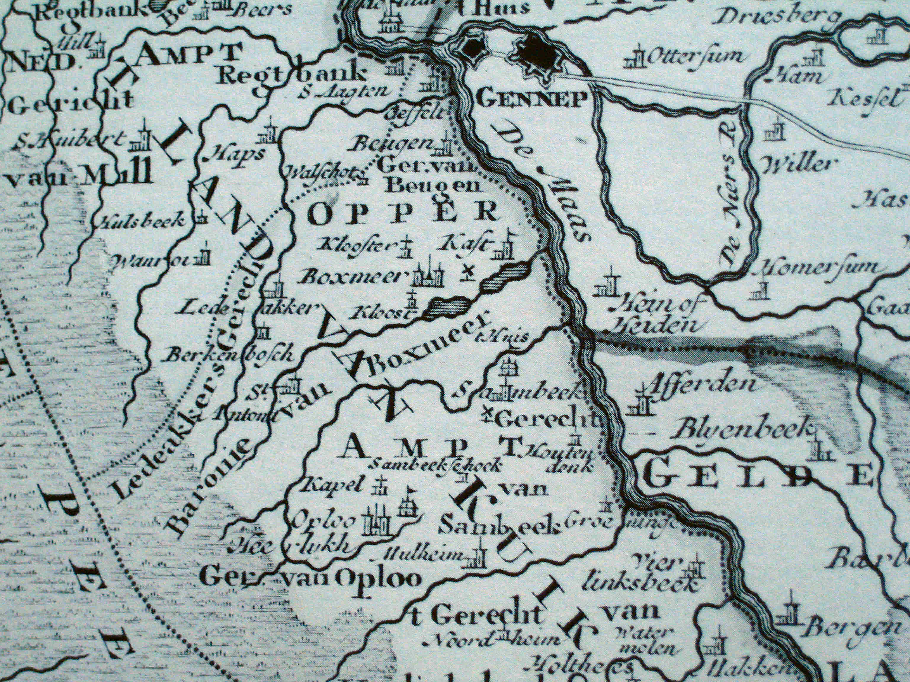 Map of Boxmeer about 1741, province of Brabant, The Netherlands.